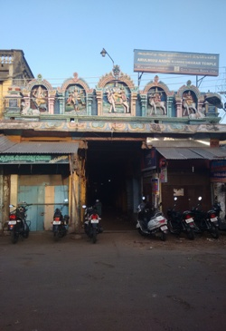 Kumbakonam Kumbeswarar temple கும்பகோணம் கும்பேஸ்வரர் கோயில்